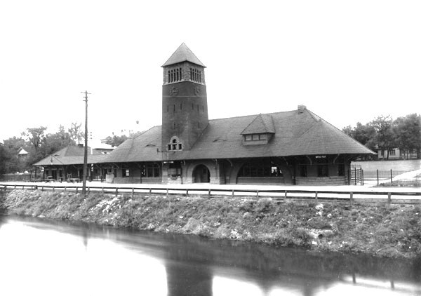 The Michigan Central Railway Depot Battle Creek, Michigan.